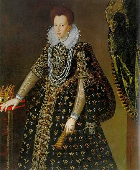 Portrait of Christine of Lorraine (1565-1637)